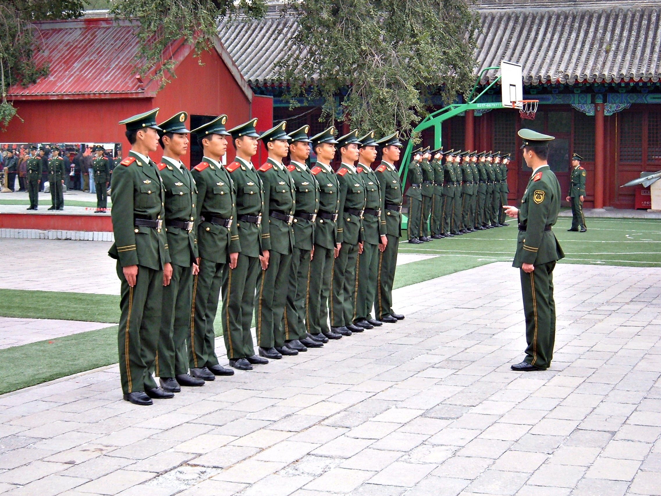 Squad of the People's Armed Police in the courtyard of the Forbidden City outside the Meridian Gate in Beijing, PRC.